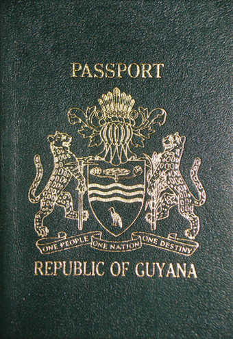 Guyanese Passport (previous issue). Discontinued in 2007 after the introduction of the CARICOM format MRP.